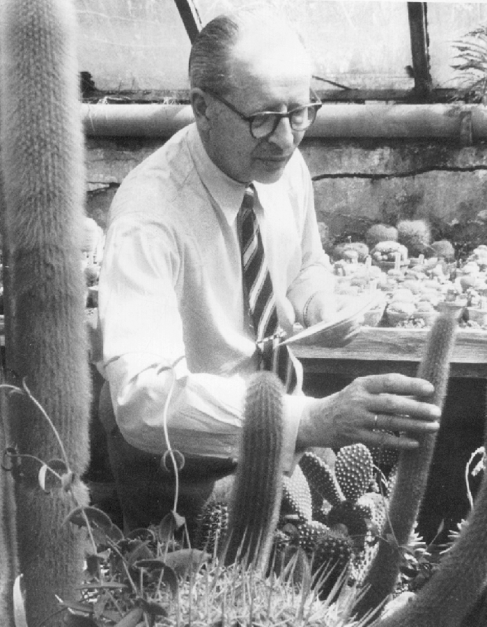 Walther Haage inside his cactus-house